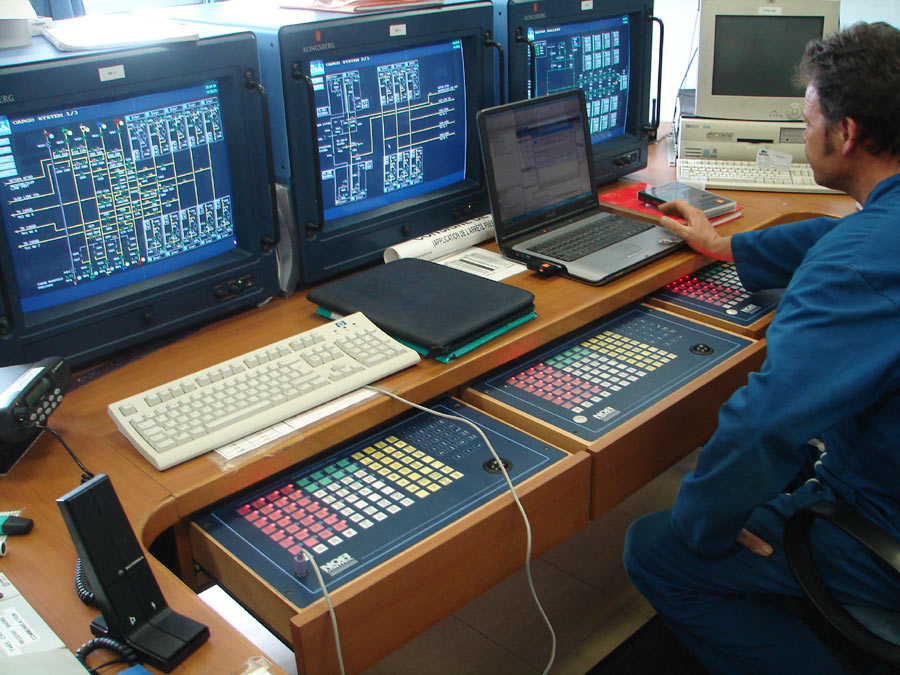 The cargo handling system of the oil/chemical tanker Bro Elizabeth.